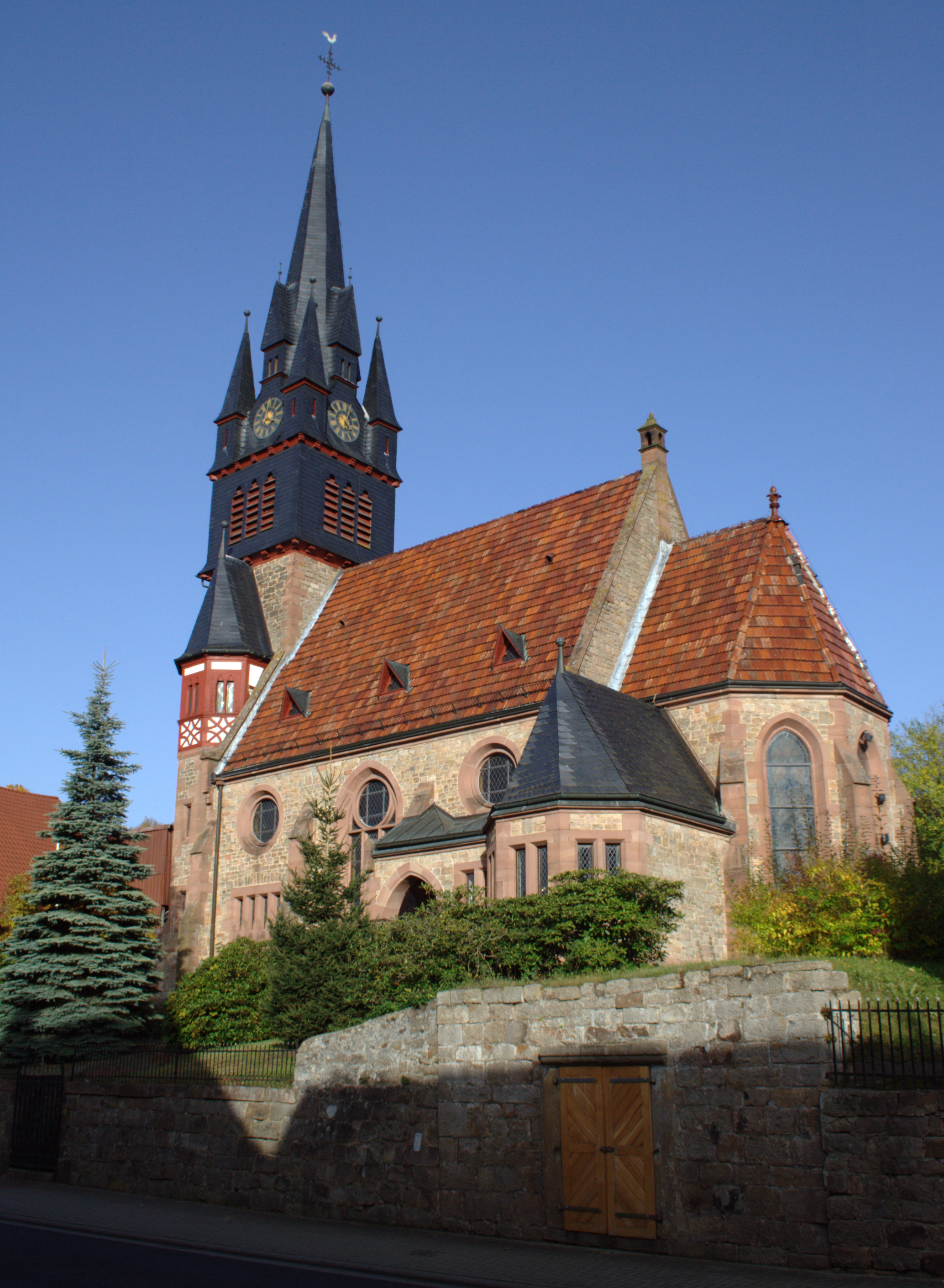 Church in Lehrbach / Kirtorf / Hesse / Germany